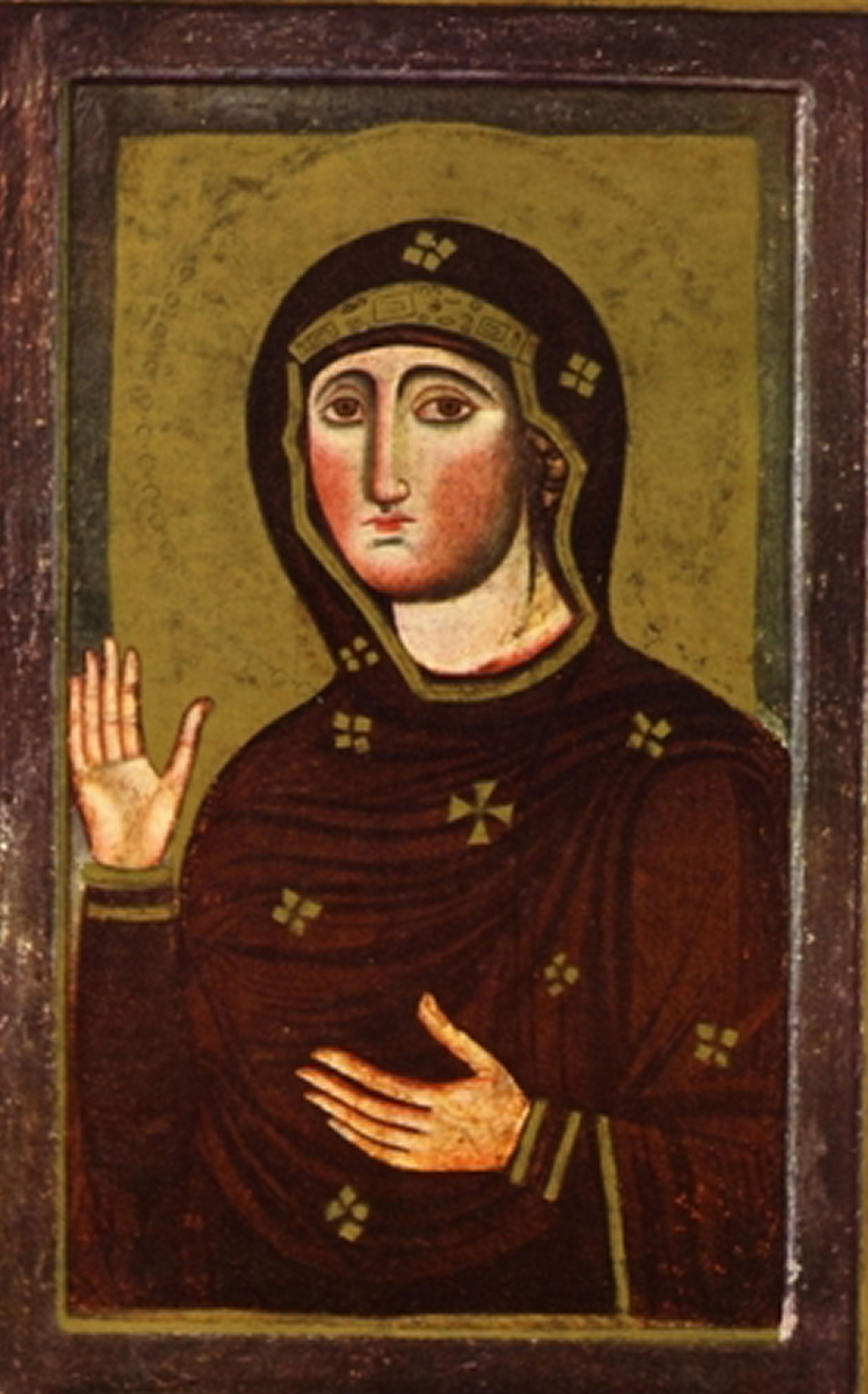 The image of Aracoeli in high altar